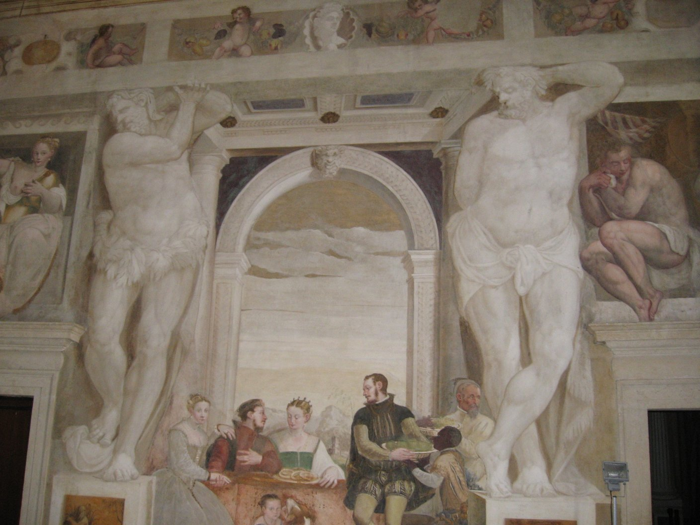 Main hall frescos by Giovanni Antonio Fasolo (1530-1572), completed on or before 1570: The snack